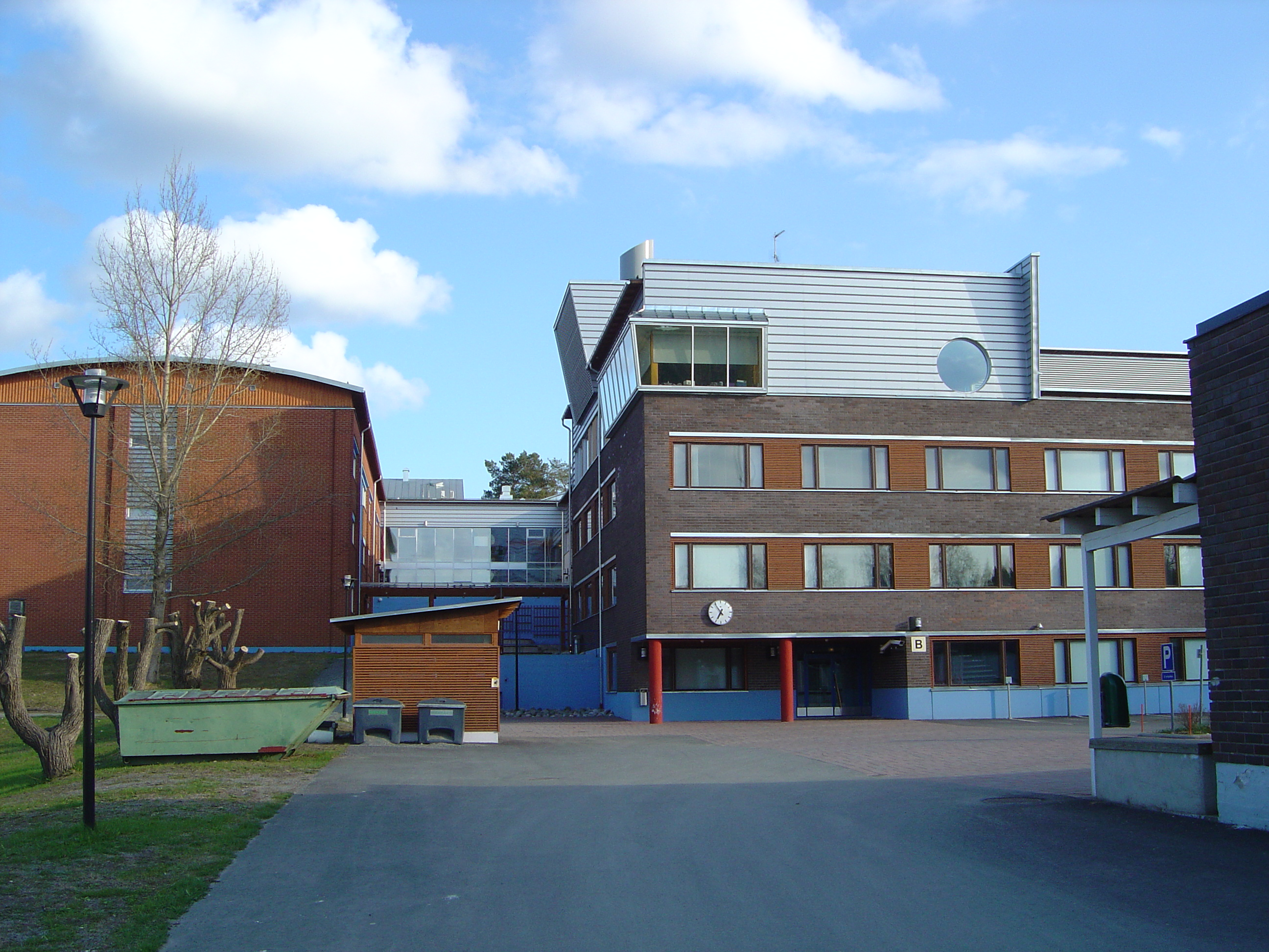 Siilinjärvi high school in Siilinjärvi, Finland